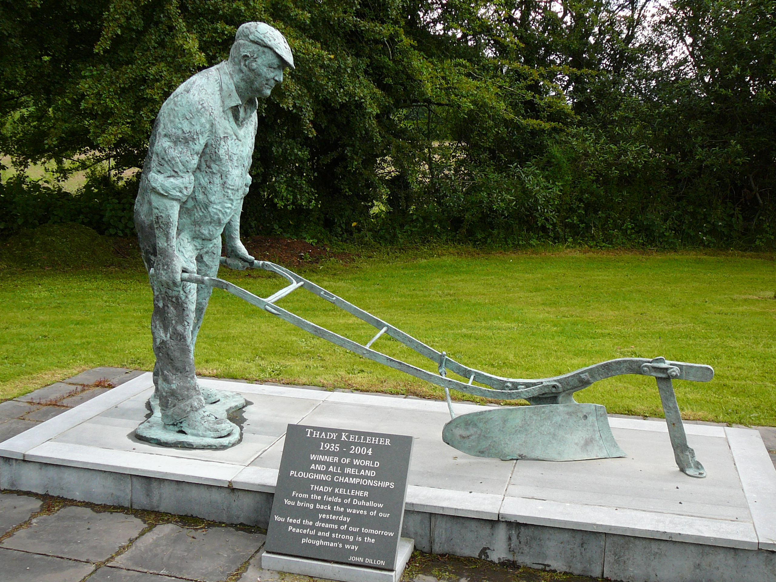 Bronze replica of Thady Kelleher, International Champion Ploughman, displayed on the approach roadside to Kanturk, Co Cork, Ireland